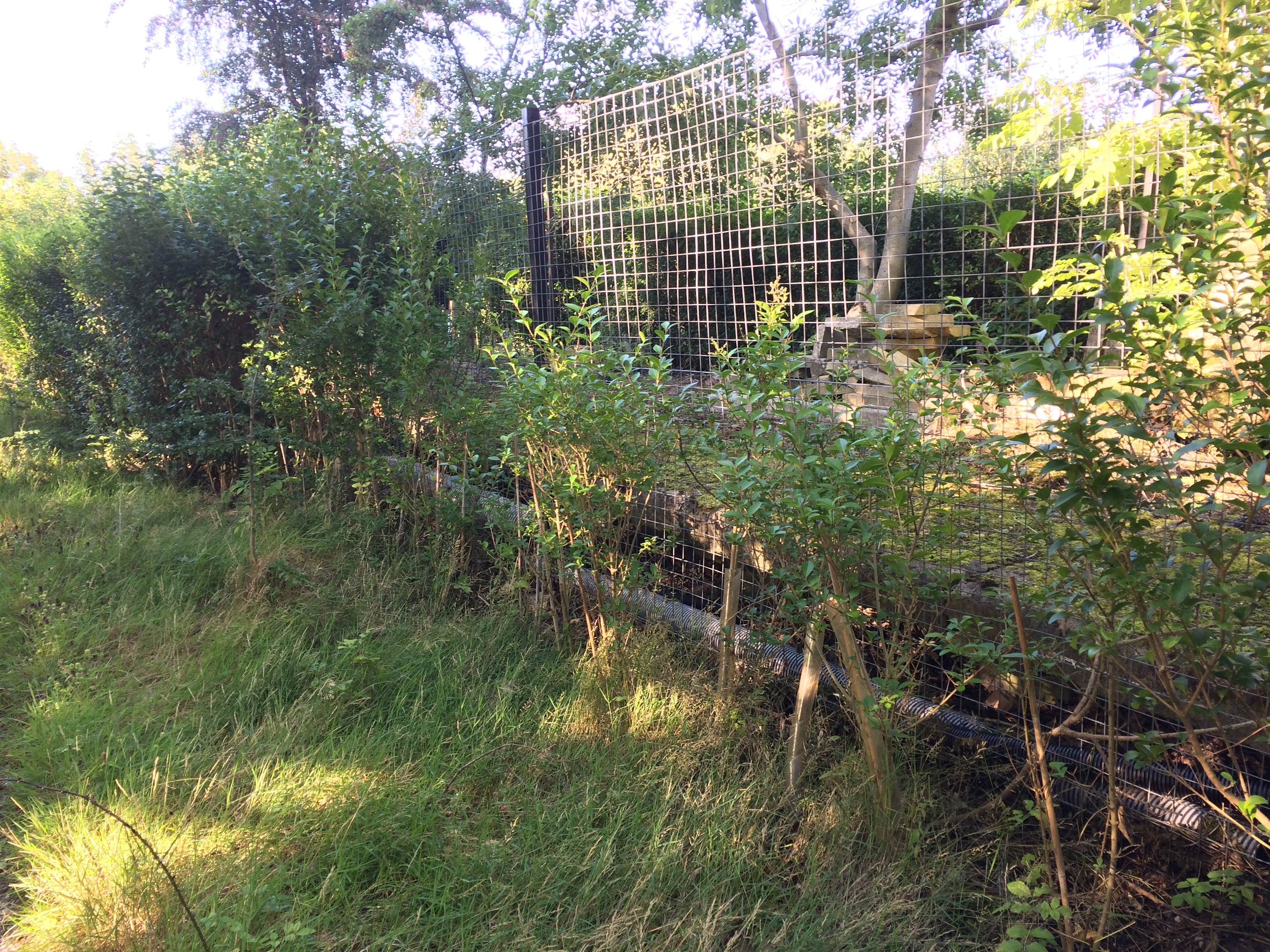 Arthington railway station was situated in a triangular junction until closure in 1965. The only remaining trace of platform is hidden behind a fence up on the old line.